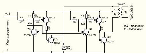 Inverter wiring 12V to ~230V